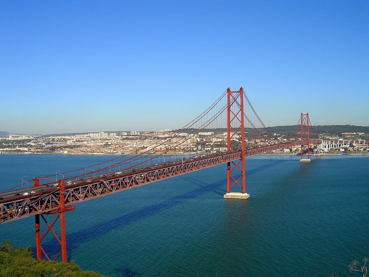 Ponte 25 de Abril (25th of April Bridge) viewed towards Lisbon.